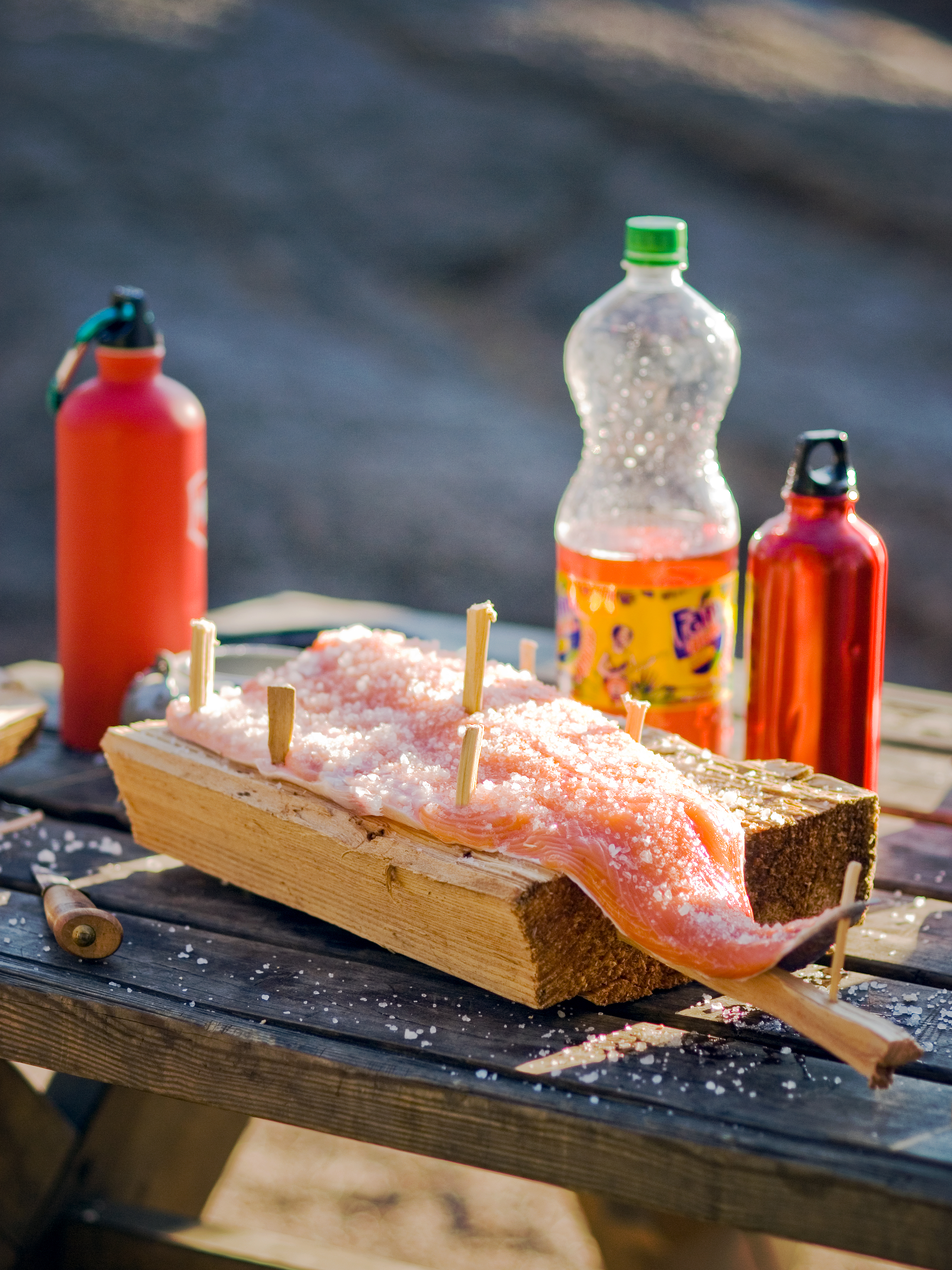 A raw fillet of rainbow trout prepared to be cooked on a campfire. The Finnish name of the meal is Loimulohi, "blazed salmon".